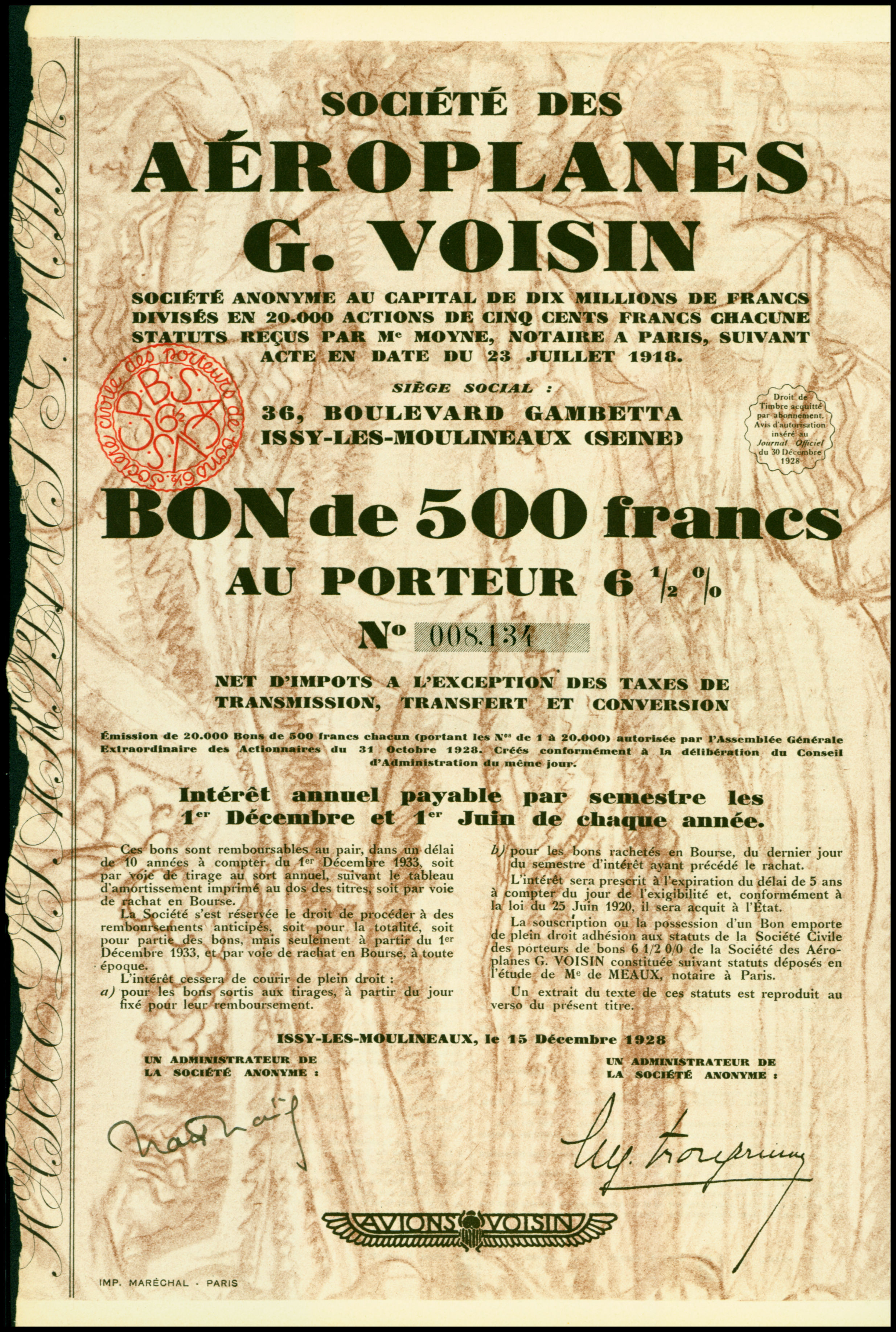 Bond of the Aéroplanes G. Voisin S.A., issued 15. December 1928